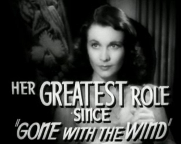 Cropped screenshot of Vivien Leigh from the trailer for the film Waterloo Bridge